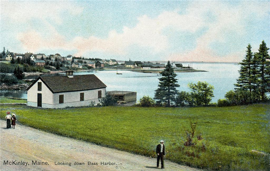 Looking down Bass Harbor, McKinley, Maine. McKinley is a village within the town of Tremont.